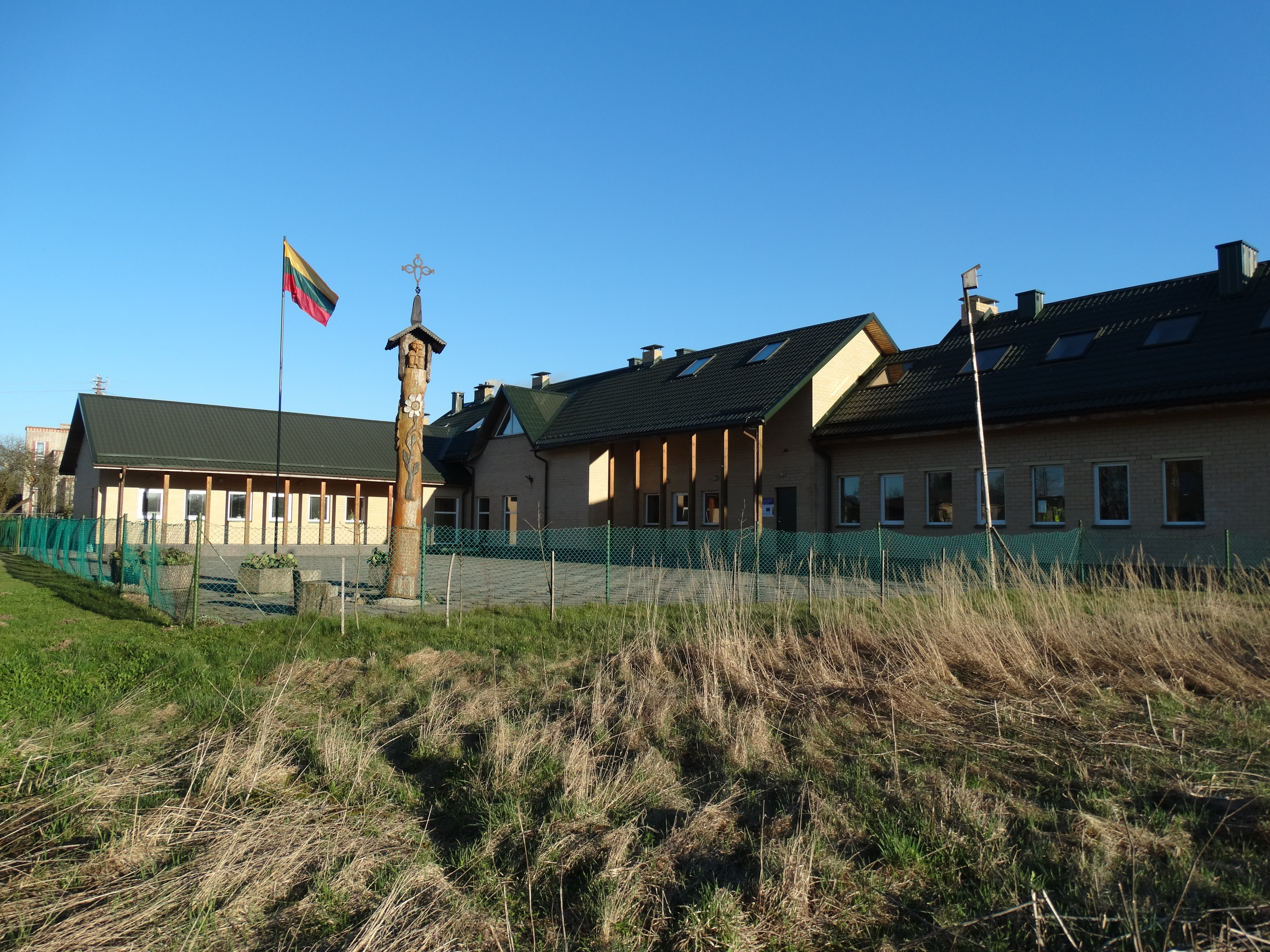 Gymnasium, Eitminiškės, Vilnius district, Lithuania